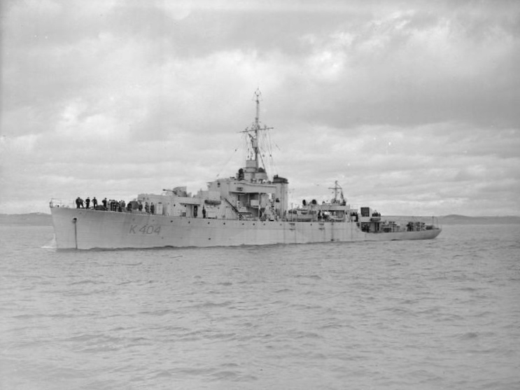 Photograph of River class frigate HMS Annan (K404).